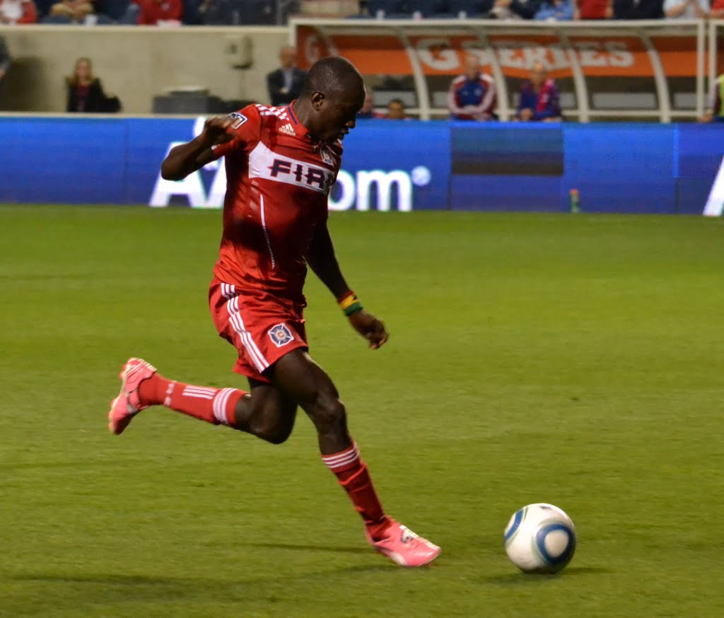 This is a photo of Dominic Oduro taken by photographer, Ryan Byrne, during a match against FC Dallas in October of 2011.